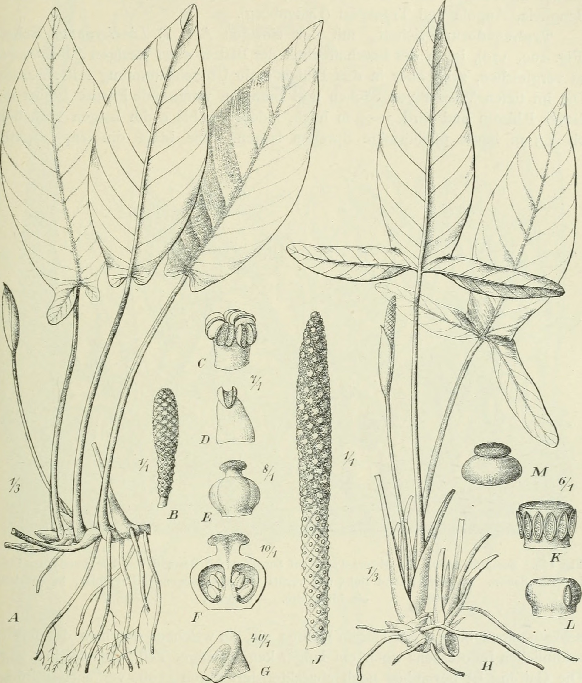 Title: Die Pflanzenwelt Afrikas, insbesondere seiner tropischen Gebiete : Grundzge der Pflanzenverbreitung im Afrika und die Charakterpflanzen Afrikas Year: 1910 (1910s) Authors: Engler, Adolf, 1844-1930 Subjects: Botany Publisher: Leipzig : W. Engelman Text Appearing Before Image: Spathiflorae. — Araceae. 251 (Hook, f.) Engl, von den Wittebergen nordwärts bis Tembuland, bis zu einer Höhe v^on 1500 m, Z. melanoleuca (Hook, f.) Engl, mit gelber, innen am Text Appearing After Image: Fig. 16S. Annbias. A—G A. auriculata Engl, aus Kamerun, Bipinde. A Rhizom mit Blättern und einem Blütenstand, 73 n. Gr.; B die Inflorescenz; C ^ Blüte; D ein Staubblatt; E Pistill; F dasselbe im Längsschnitt; G Samenanlage. H—M A. hastifolia Engl, von Kamerun, Batanga; auch am Kongo. ZT ganze Pflanze; y Inflorescenz; ÄAndröceum; L ein Synandrium mit nur einer fertilen Theka; M Pistill. — Original. Grunde dunkel karminfarbener Spatha, in Natal, Maschonaland und dem süd- lichen Nyassaland; Z. ReJwiaimii Engl, mit schmalen lanzettlichen Blättern, auf steinigen Hügeln in Natal von 1300—1600 m, Z. Jiastata (Hook, f.) im